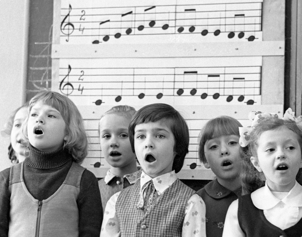 “The youngsters singing”. The pupils of the Riga Emīls Dārziņš Specialized Secondary School of Music.